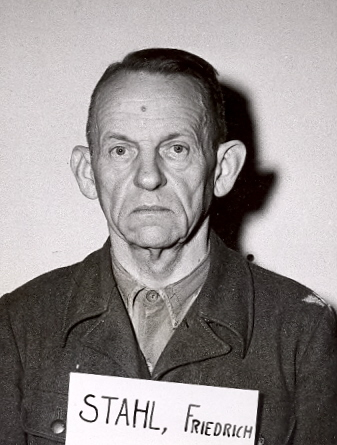 Friedrich Stahl as a witness during the Nuremberg Trials.